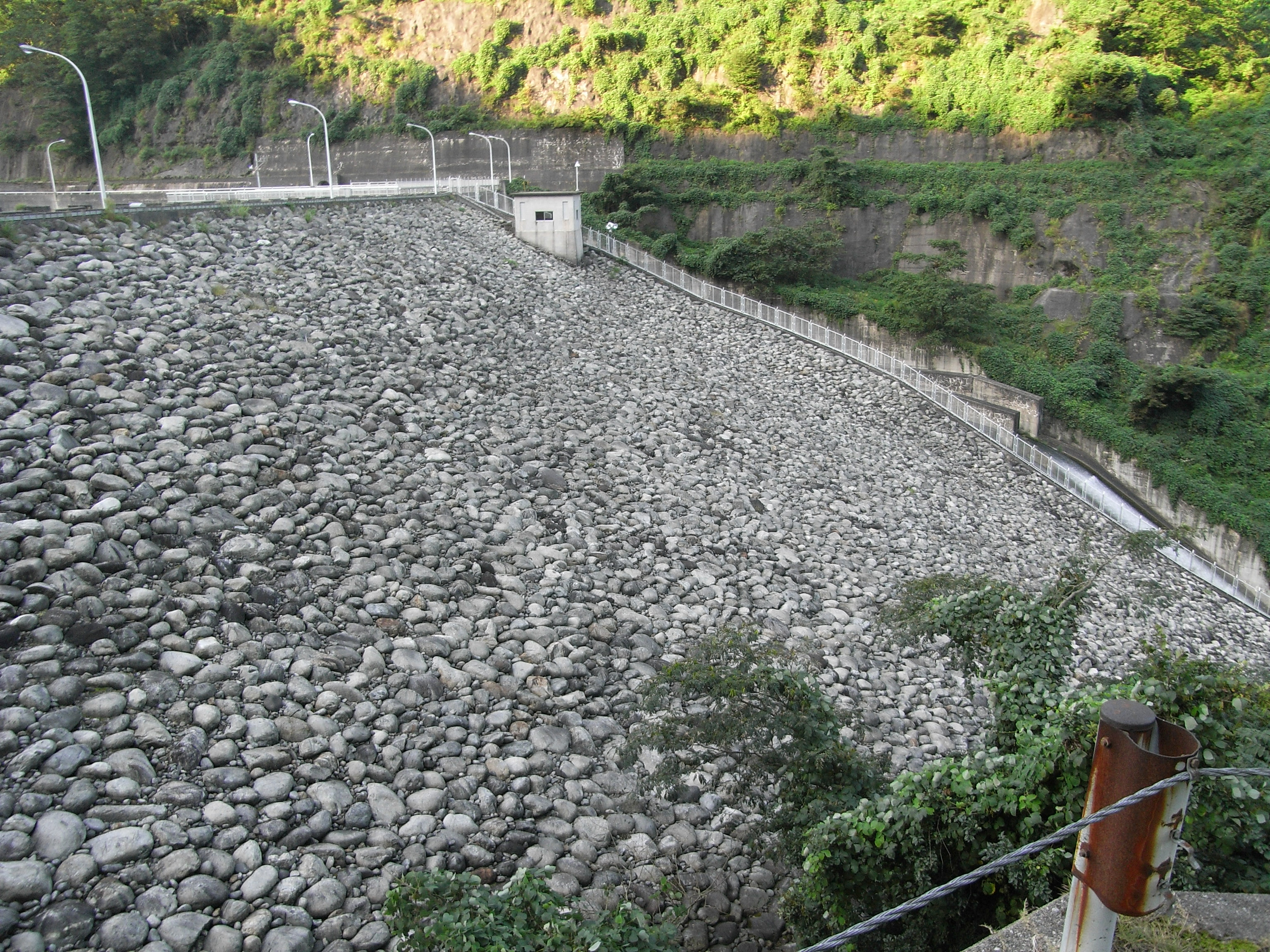 Kadogawa Dam(Kadogawa river/Toyama Pref./Japan)